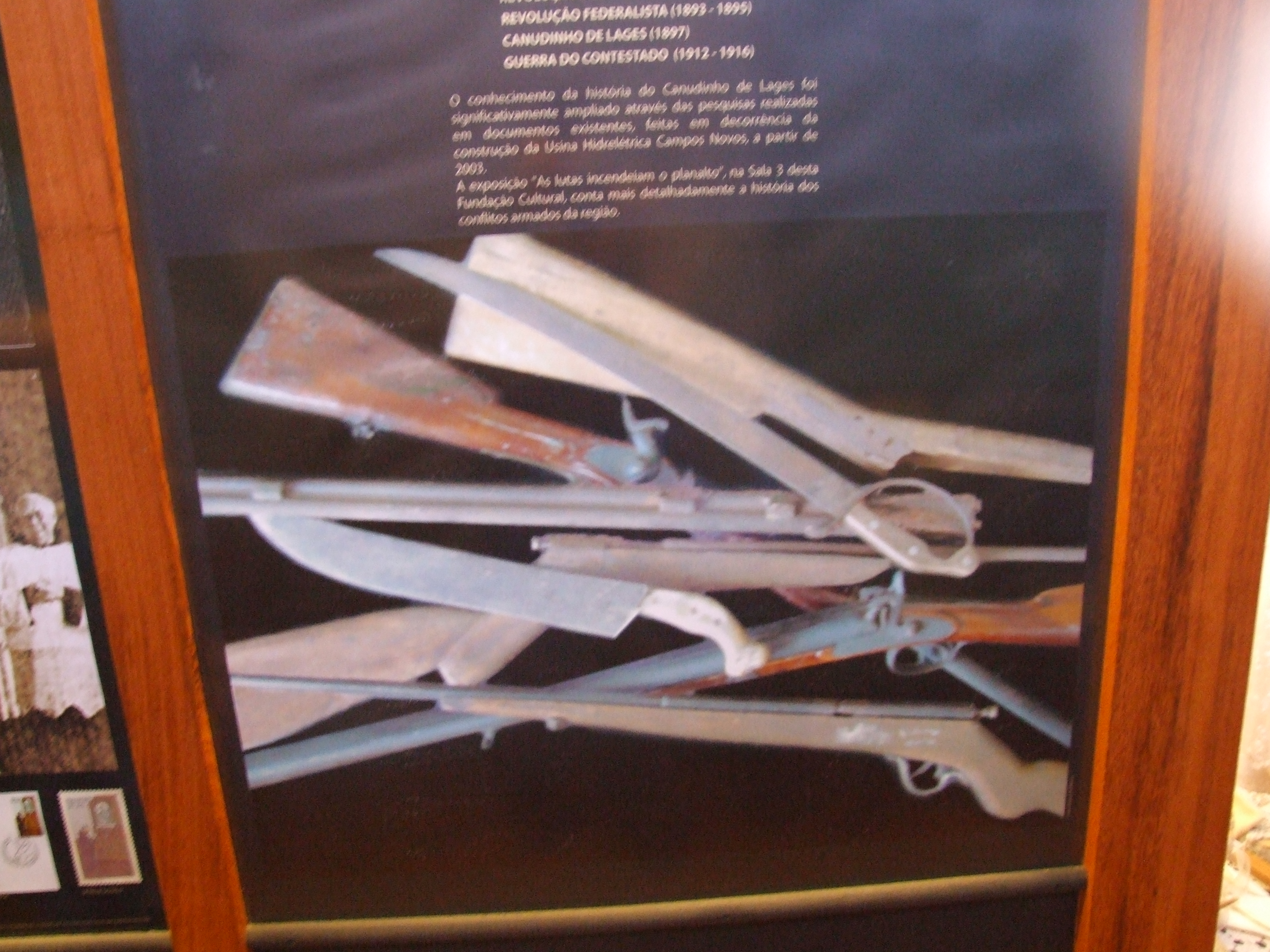 Firearms used in the War of Tatters, in the Federalist Revolution, in the Canudinho de Lages and in the War of Contestado, preserved in the Municipal Historical Museum of Campos Novos, Santa Catarina, Brazil